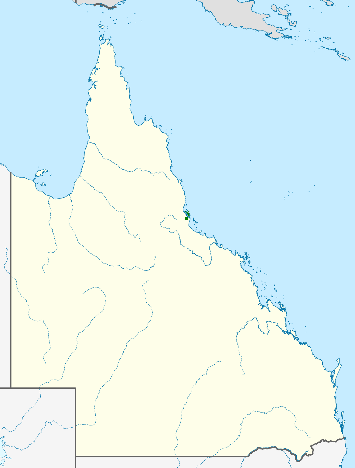 Map template derived from File:Australia_Queensland_location_map_blank.svg. Information adapted from Taylor, Anne; Hopper, Stephen (1988) The Banksia Atlas (Australian Flora and Fauna Series Number 8), Canberra: Australian Government Publishing Service, p. 191 ISBN: 0-644-07124-9. (incorporates official herbarium data from that page).